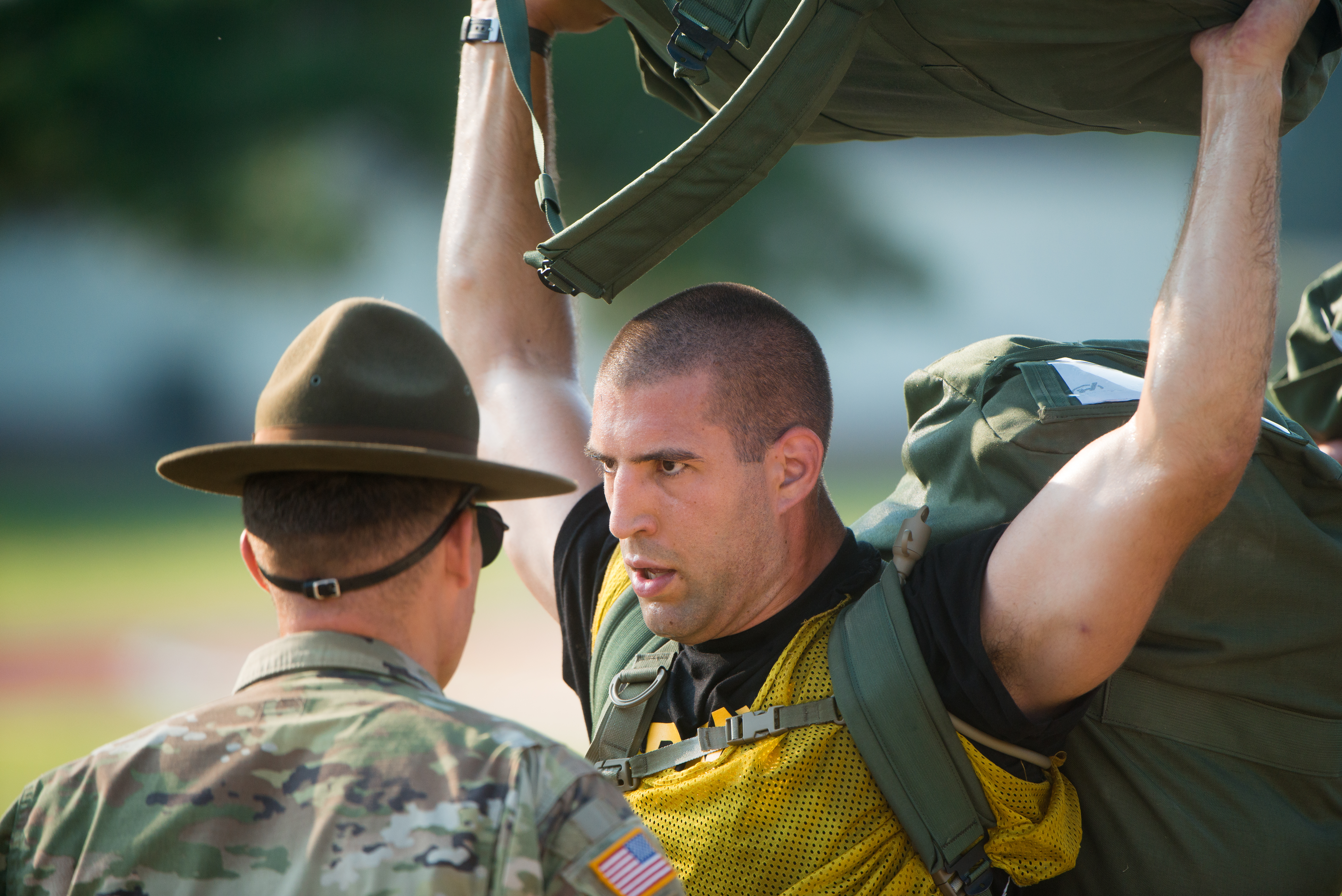 bag dril